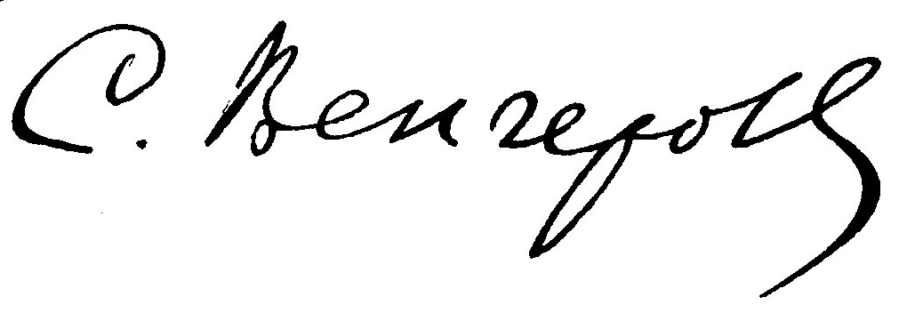 A signature of Russian historian Semyon Vengerov